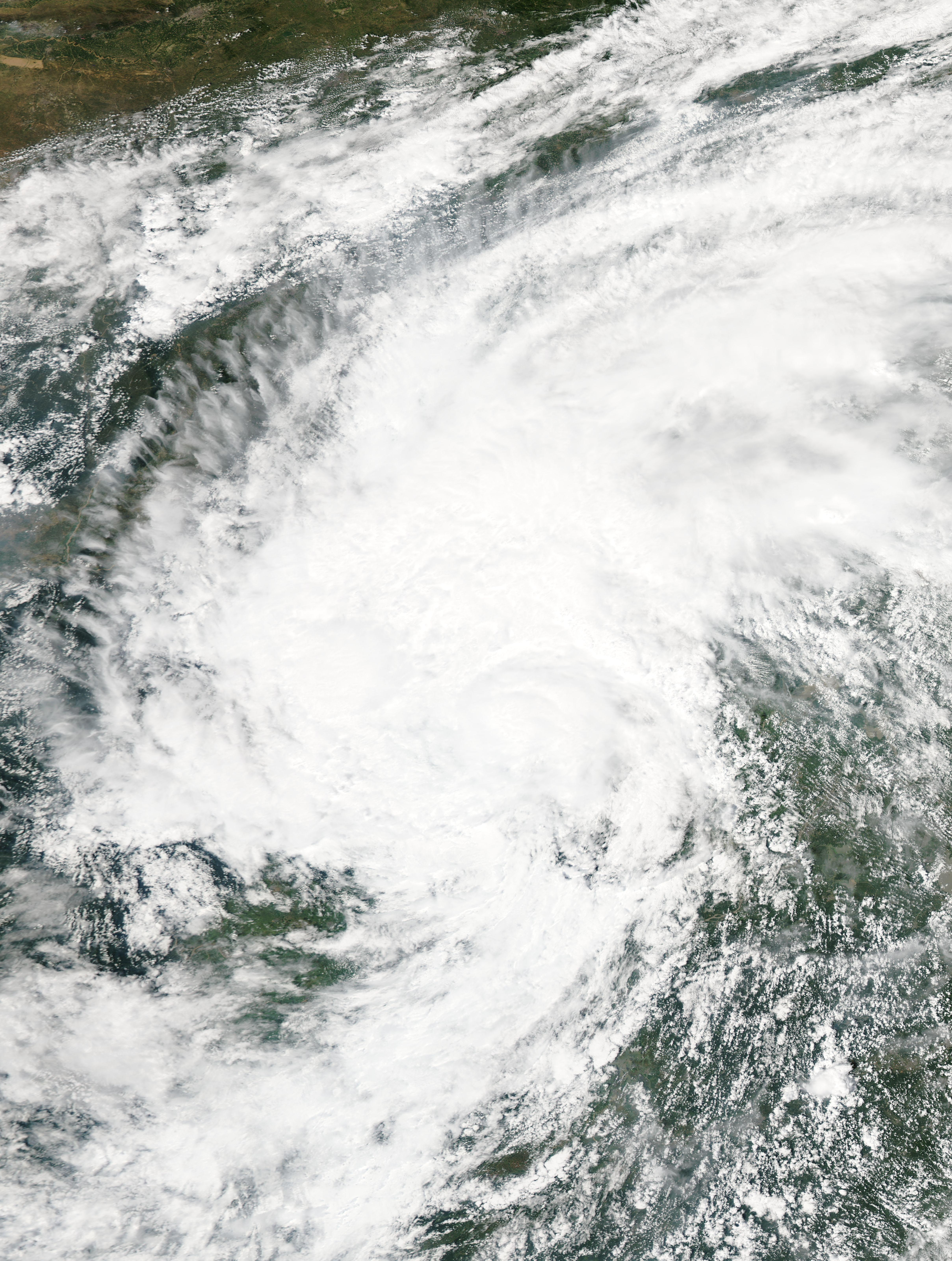 Remnants of Tropical Storm Rumbia (21W) over East China (afternoon overpass)